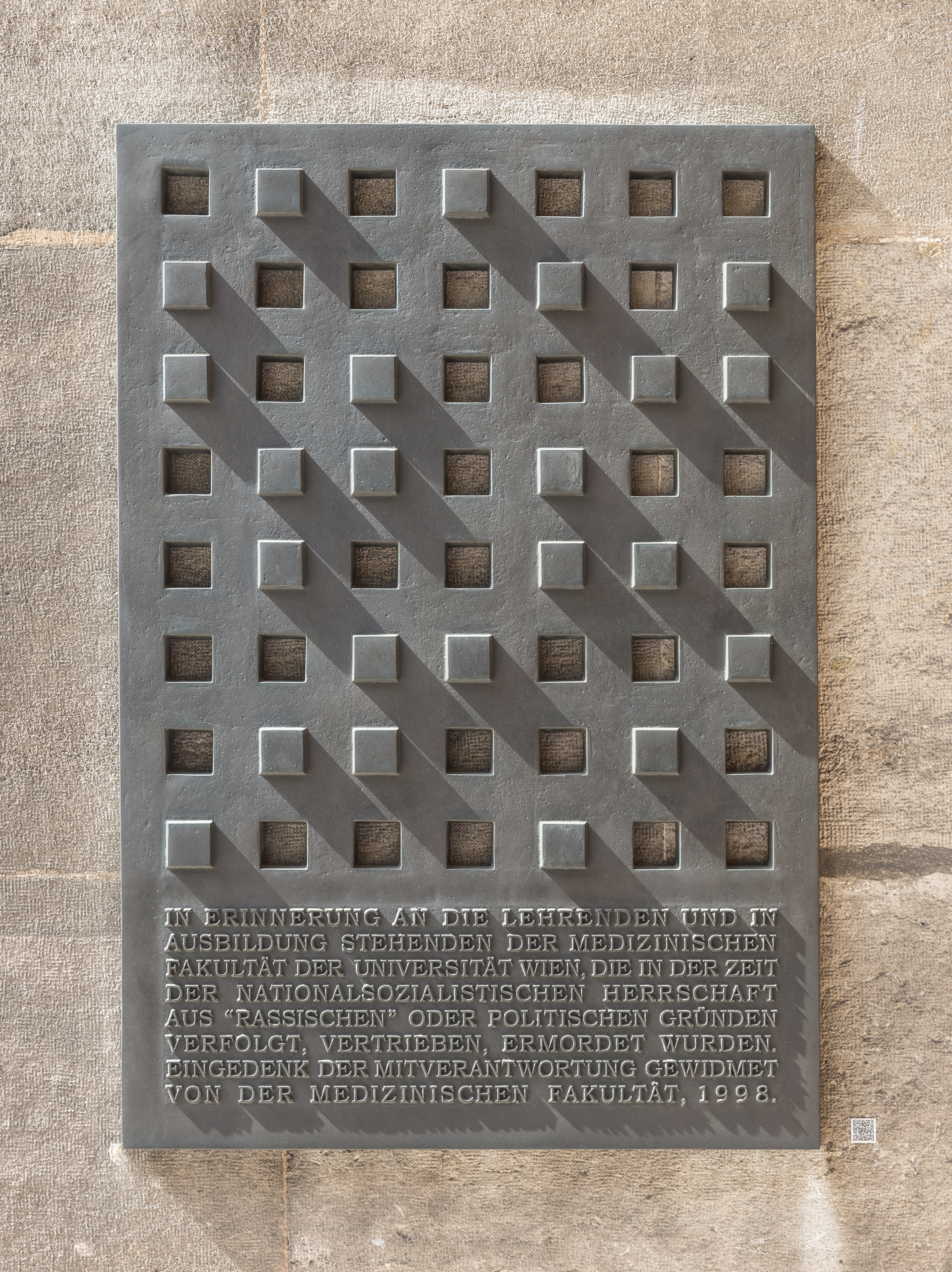 Plaque commemorating persecuted, expelled and murdered members of the Medical Faculty 1938-1945, plaque (bronze) in the Arkadenhof of the University of Vienna, (Maisel# 123). Artist: Günter Wolfsberger (*1944), unveiled 1998